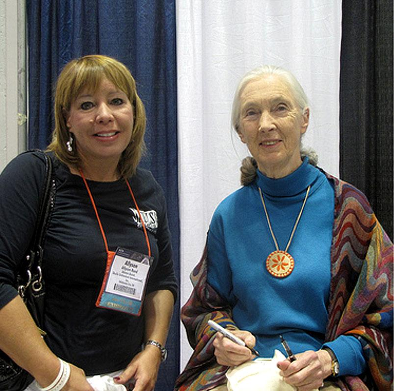 Jane Goodall with Allyson Reed of Skulls Unlimited International, Oklahoma City, Oklahoma.